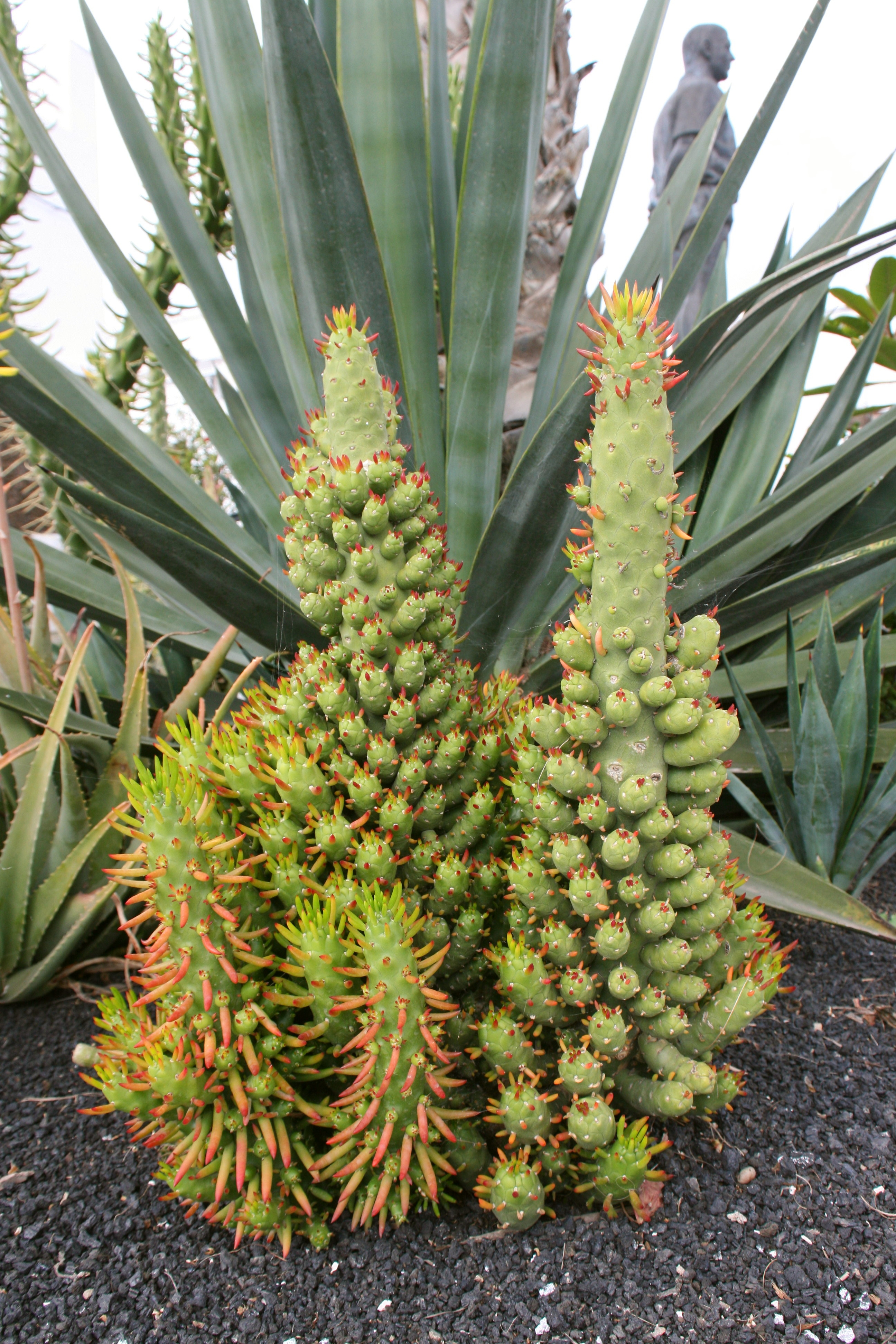 Monstrose Austrocylindropuntia subulata grown at Calle San Juan in Haría